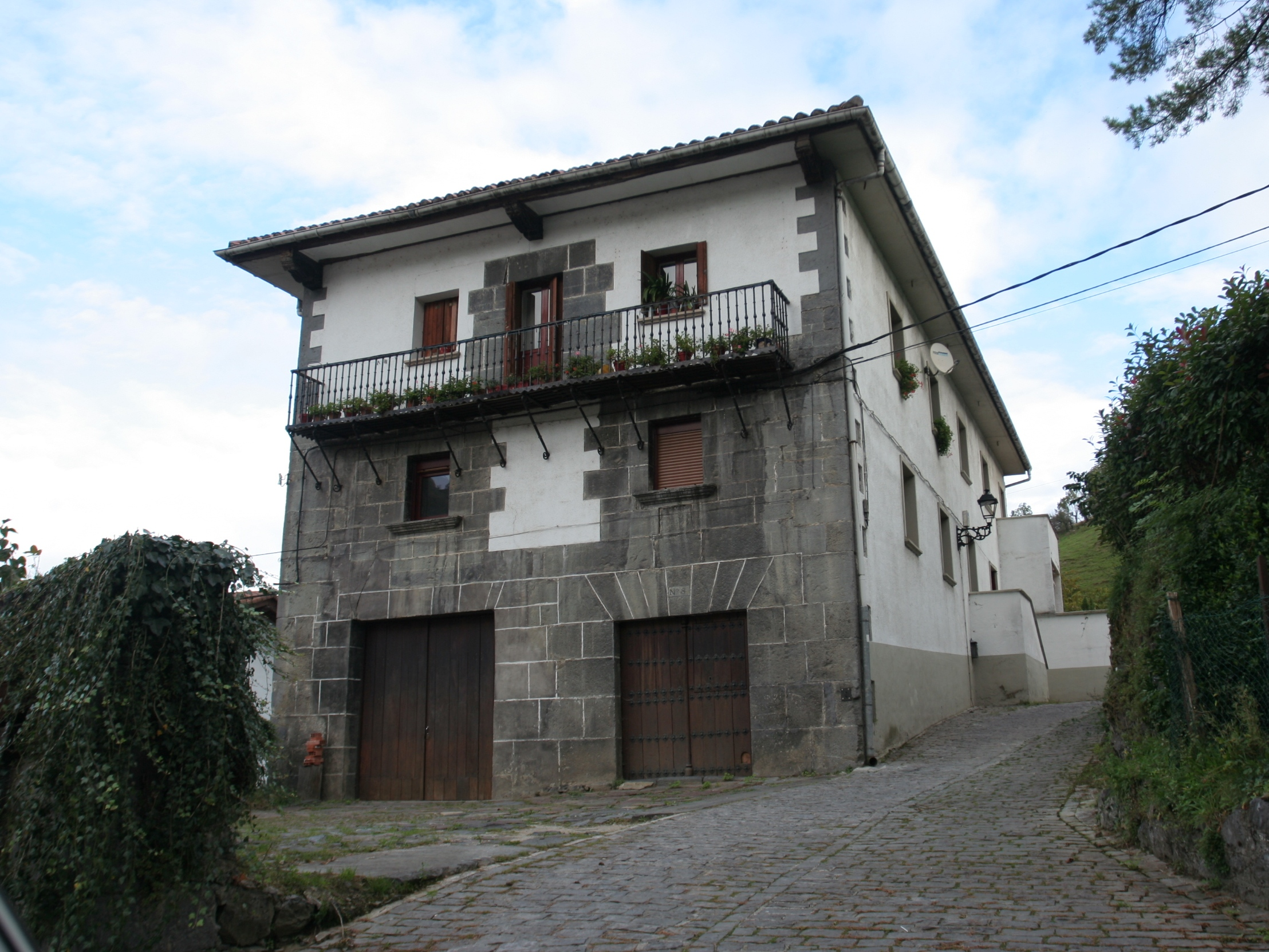 casa Francisquenea, the Lizarza family house in Leitza